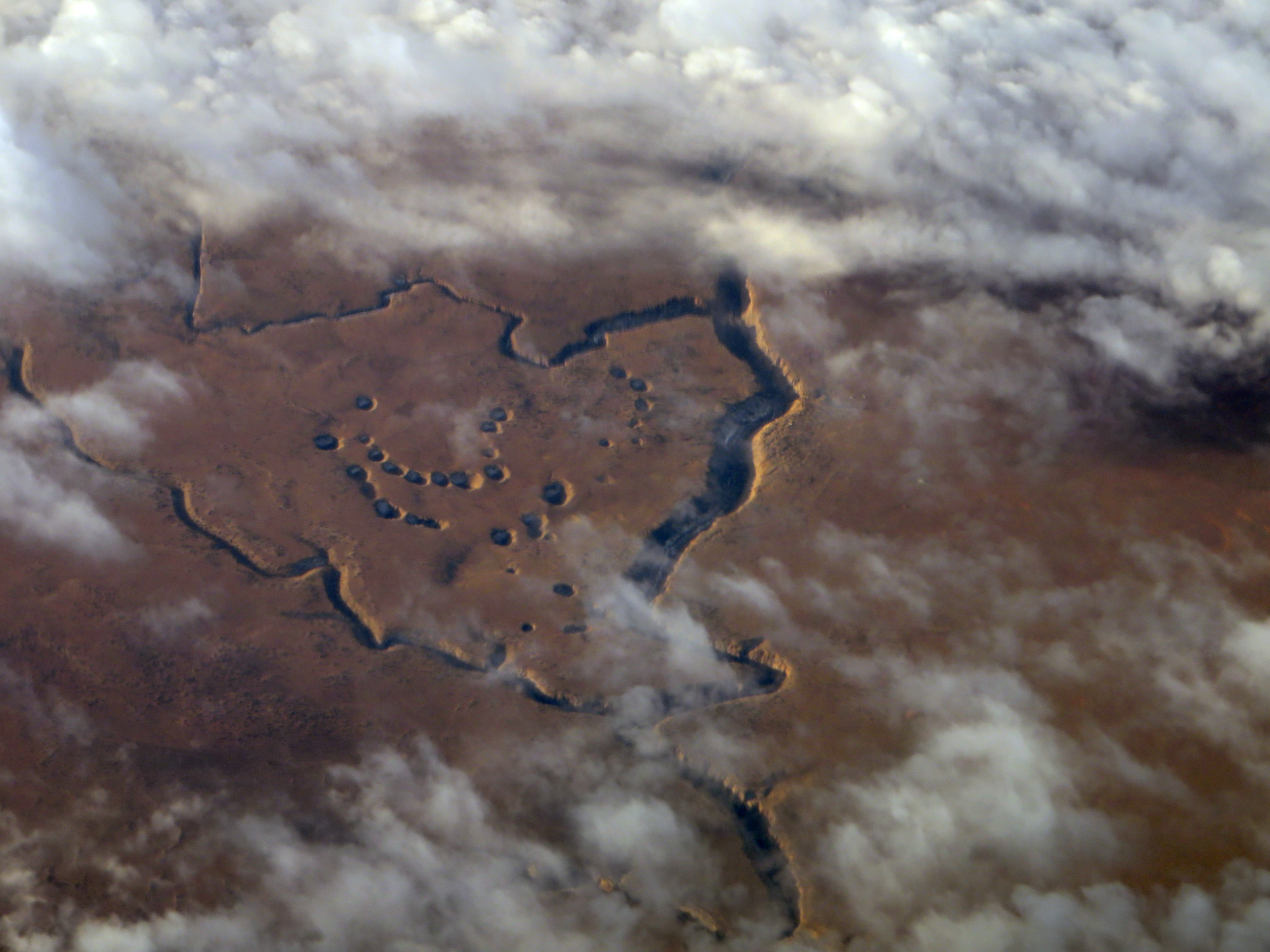 Interesting canyon and sinkhole formations.